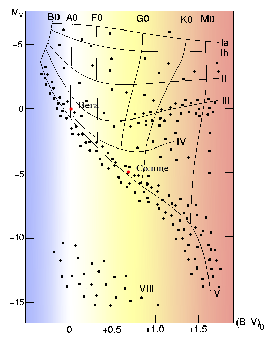 Vega and Sun on the Hertzsprung–Russell diagram as red dots